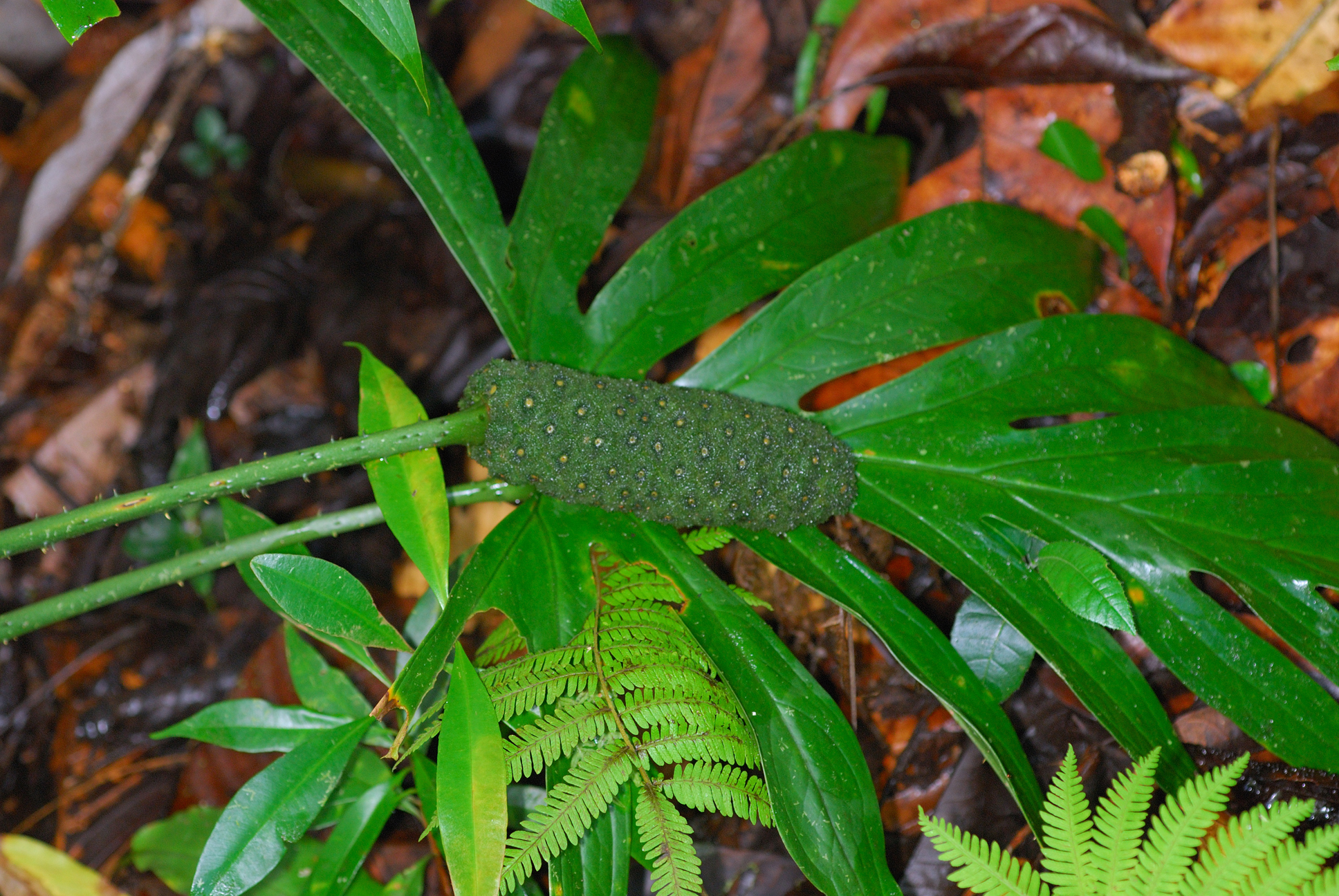 Photographed at Mulu National Park, Sarawak, Malaysia, Borneo